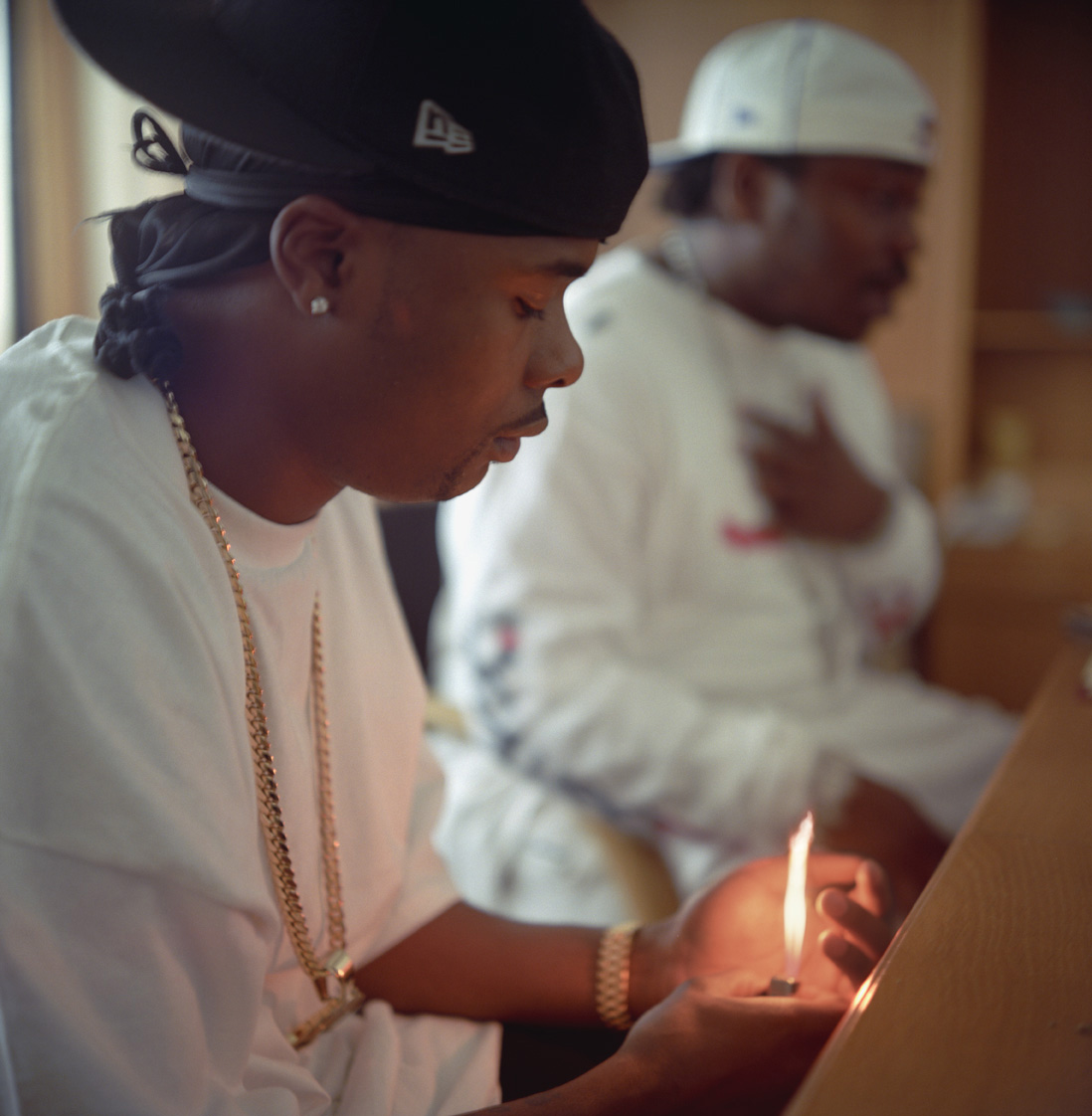 Memphis Bleek in Germany 2003